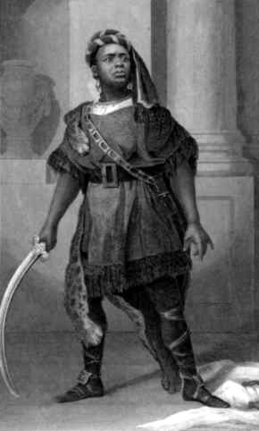 Ira Aldridge as Aaron in Shakespeare's Titus Andronicus. Quote: "He dies upon my scimetar's [sic] sharp point, / That touches this my first-born son and heir!" Act 4, sc. 2.